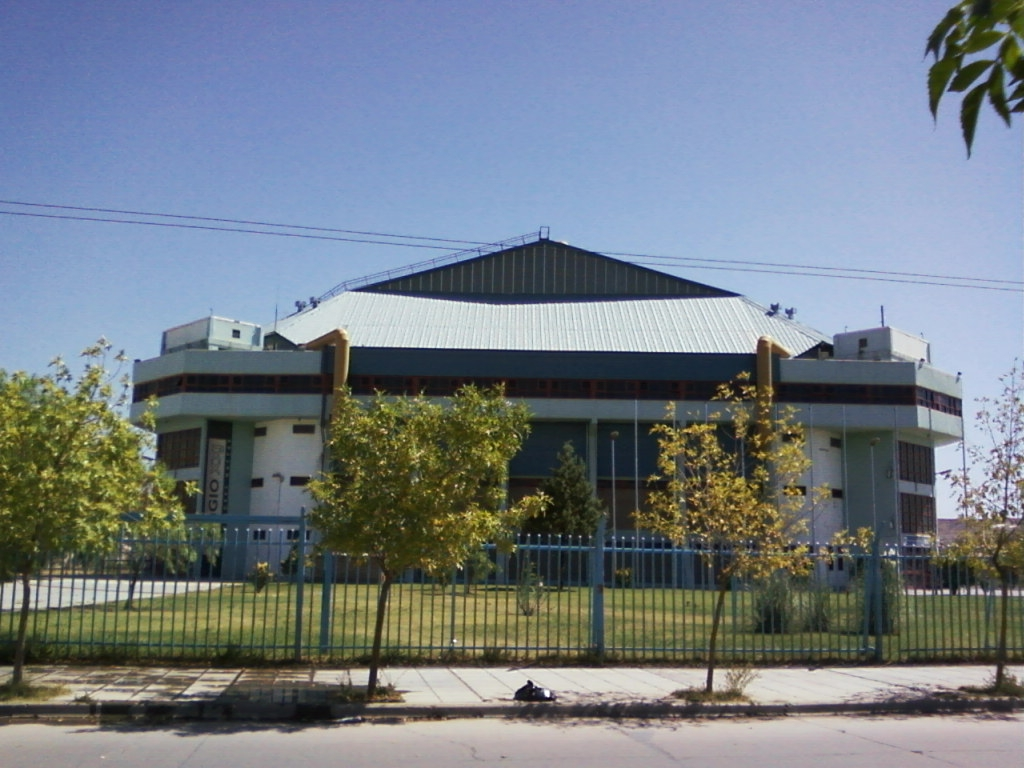 Indoor stadium in Neuquén, Argentinian Patagonia.